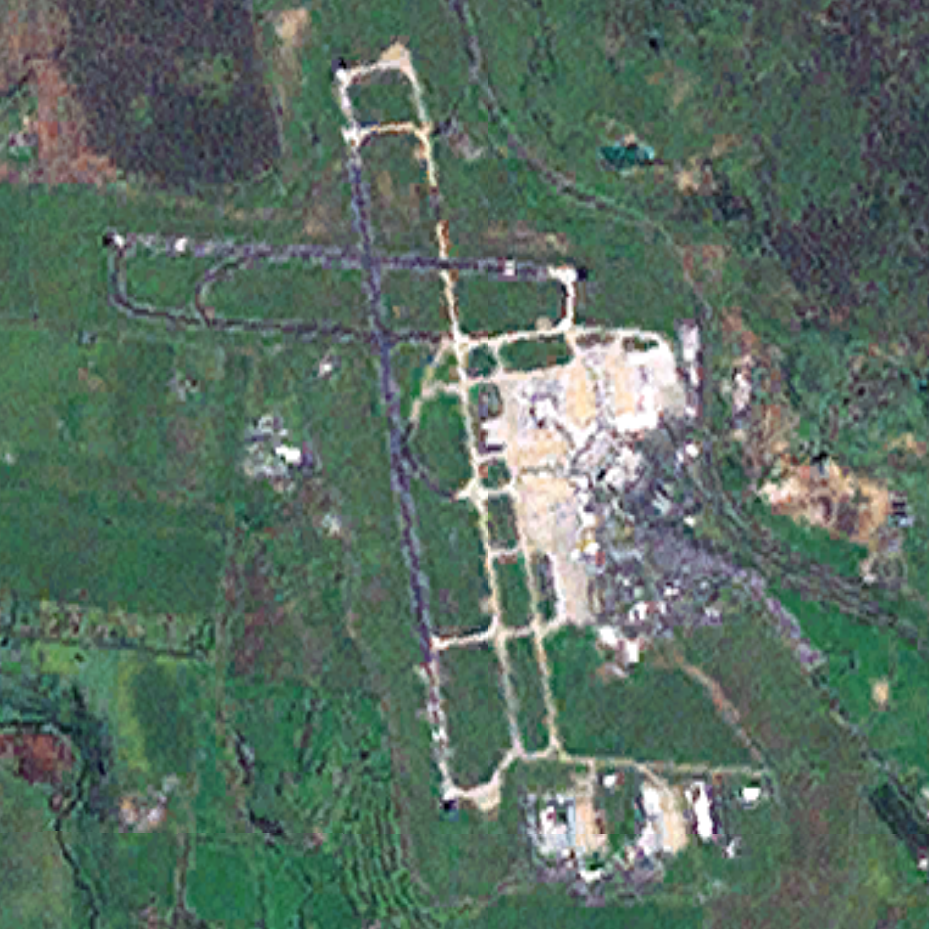 Satellite view of Melbourne Airport via NASA World Wind. Runway and terminal layout visible.